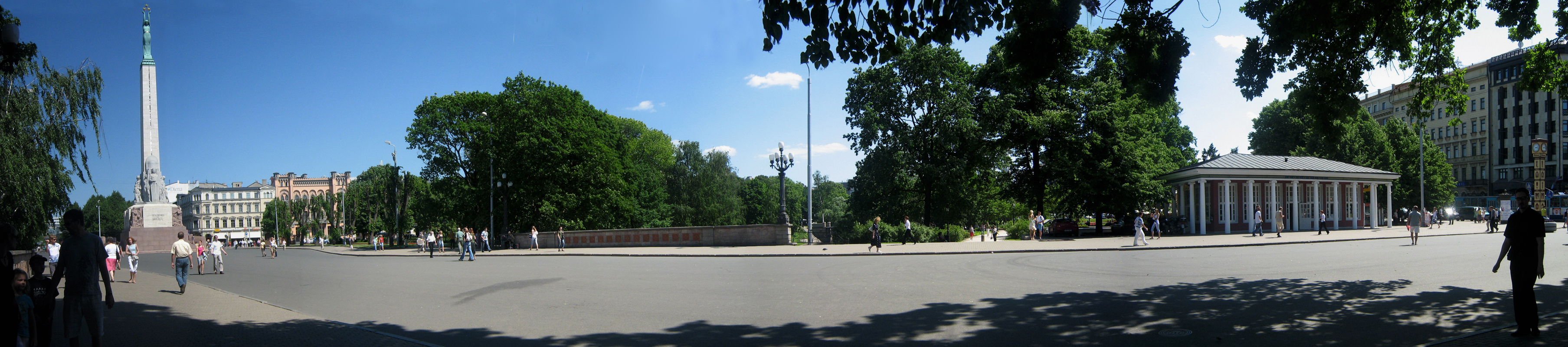 Freedom monument plaza in Riga